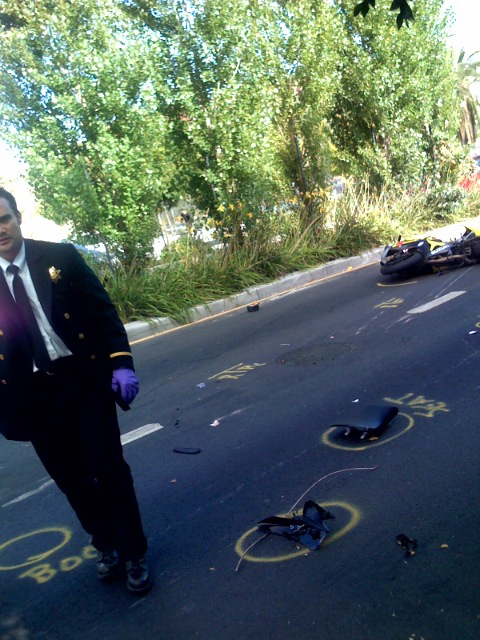 On Octavia st., towards the entrance to the 101. Scary... (taken with an iPhone)